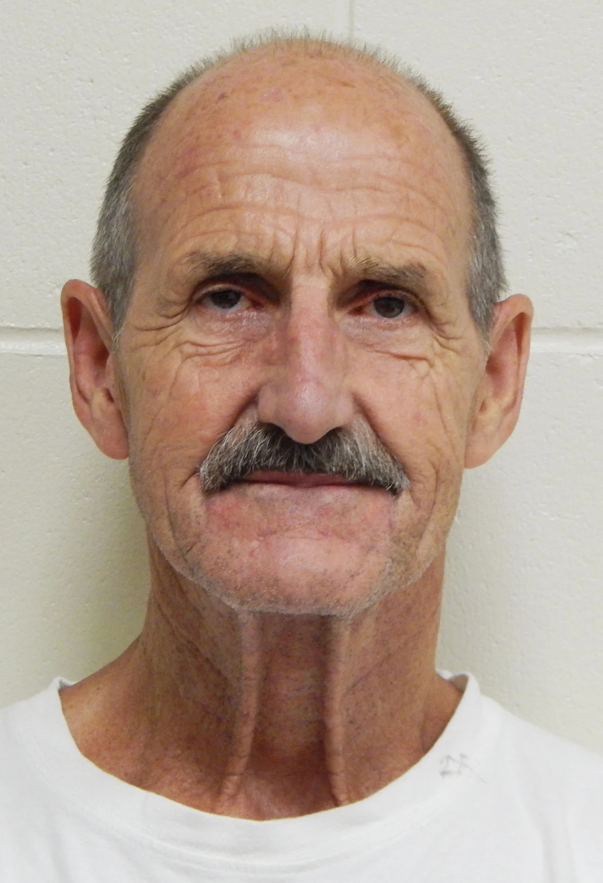 US BOP inmate photo of Duane Earl Pope